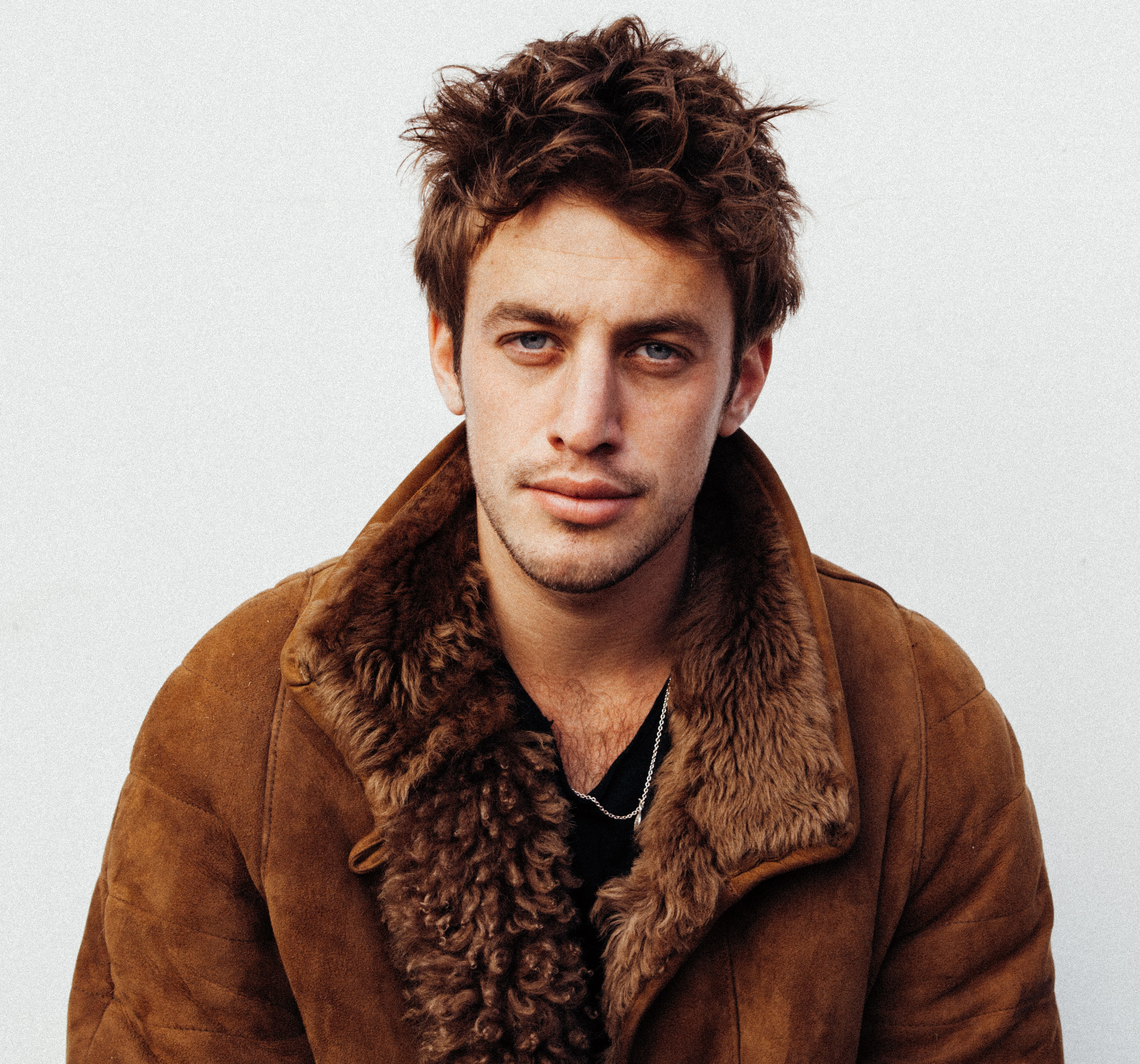 Press photo of British musician Stevie Appleton